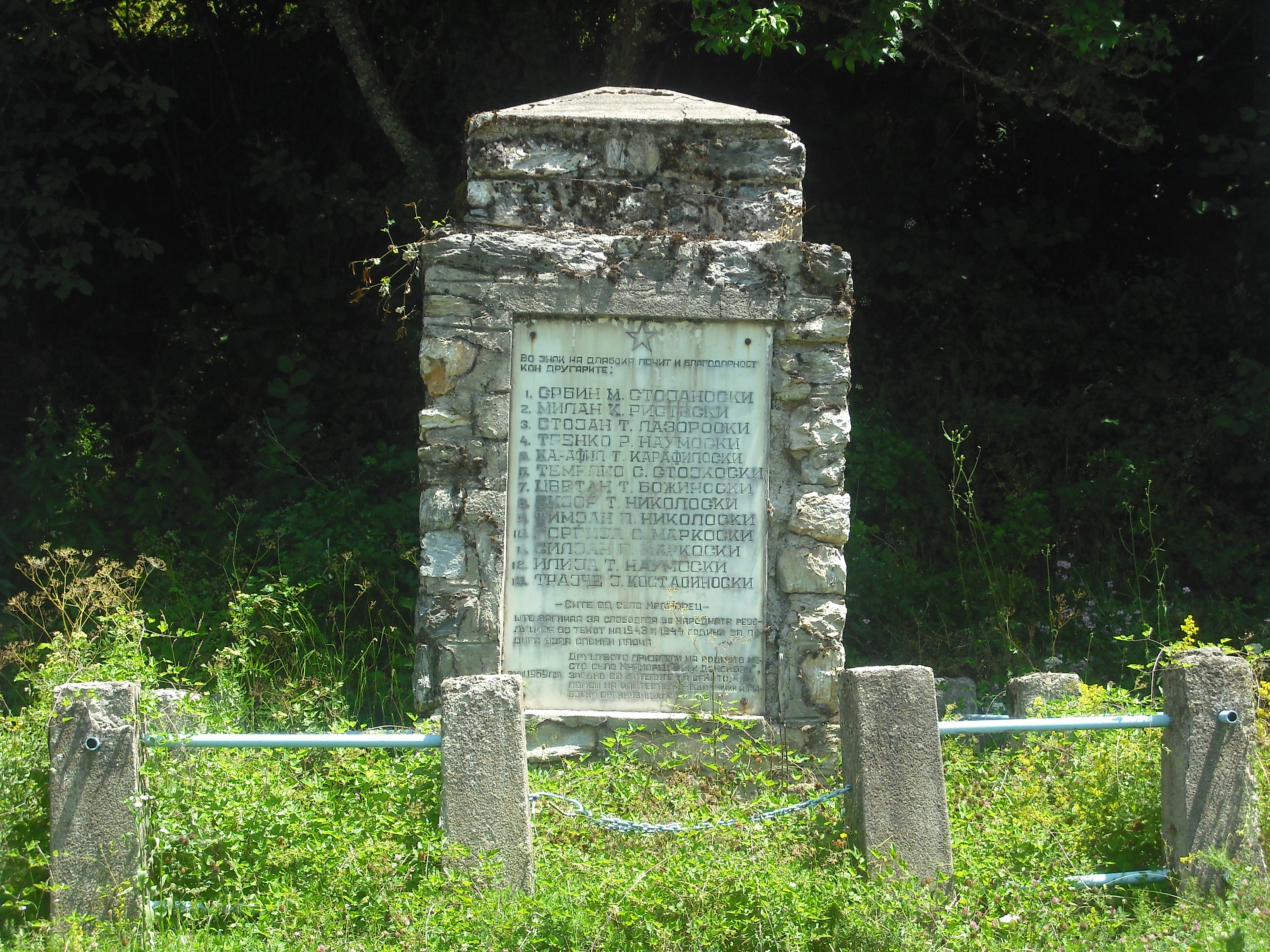 The monument of the 13 soldiers fallen during the World War II in the village of Mramorec, Macedonia